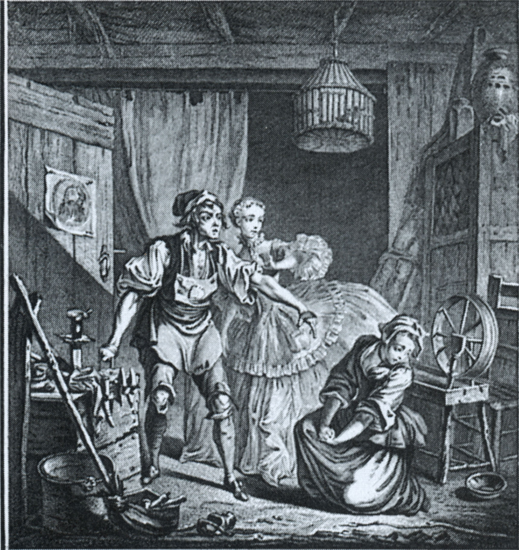 A scene from Le diable à quatre, with a libretto by Michel-Jean Sedaine and first performed at the Foire Saint-Laurent on January 30, 1756. It was produced numerous times with music by different composers and became one of the most performed comic operas in the latter half of the 18th century.